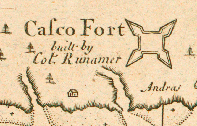 Fort Casco, Falmouth (Portland), Maine by Cyprian Southack, 1720 map inset